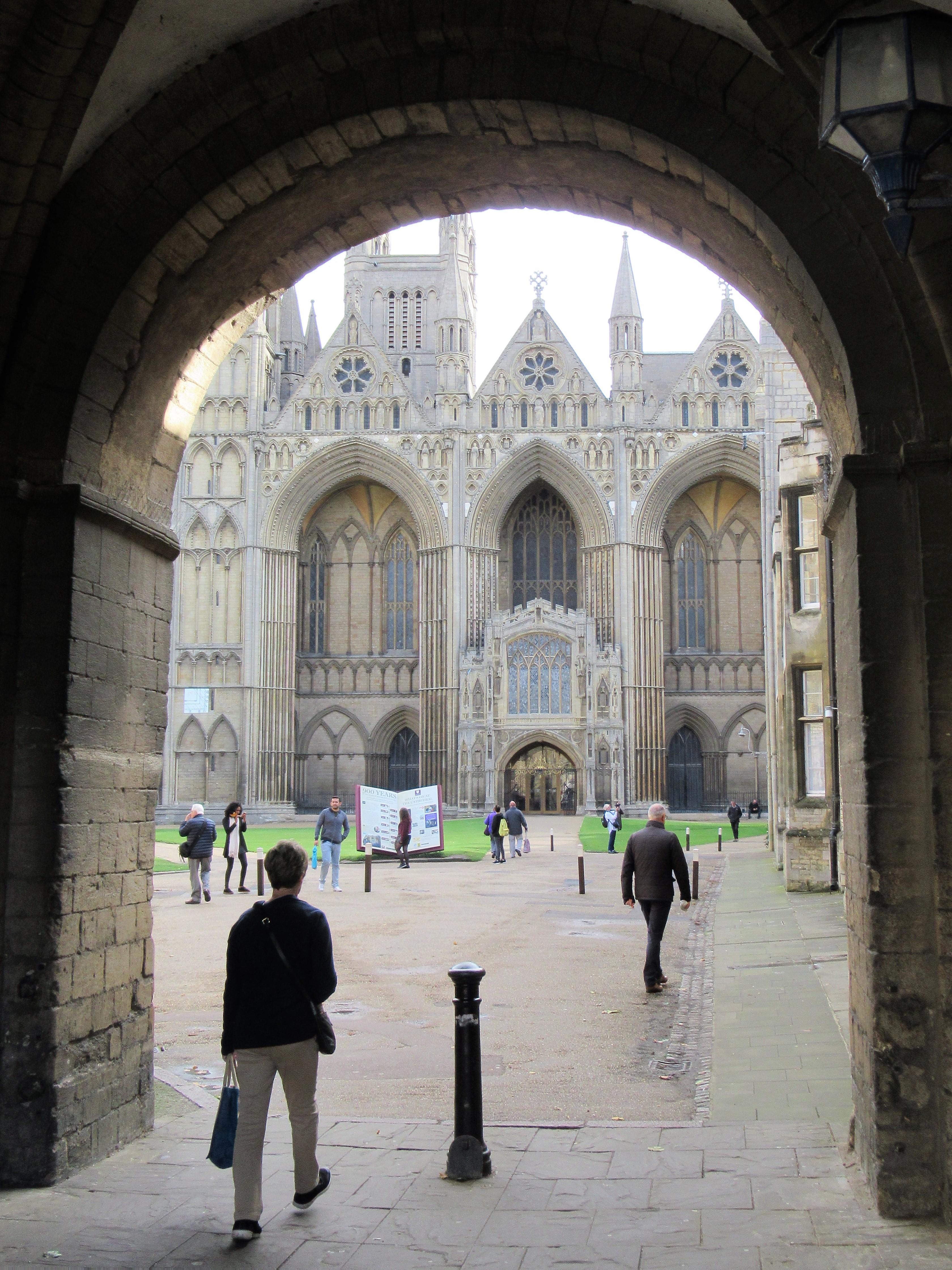 Peterborough Cathedral, west front